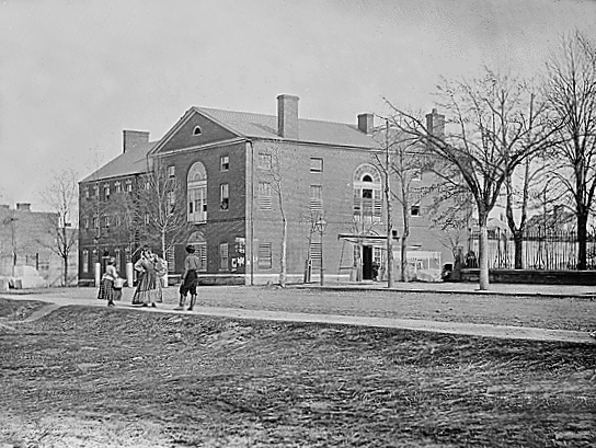 United States Old Capitol Prison, ca. 1860 - ca. 1865 Alternate Photograph: :Image:Capitolprison2.gif